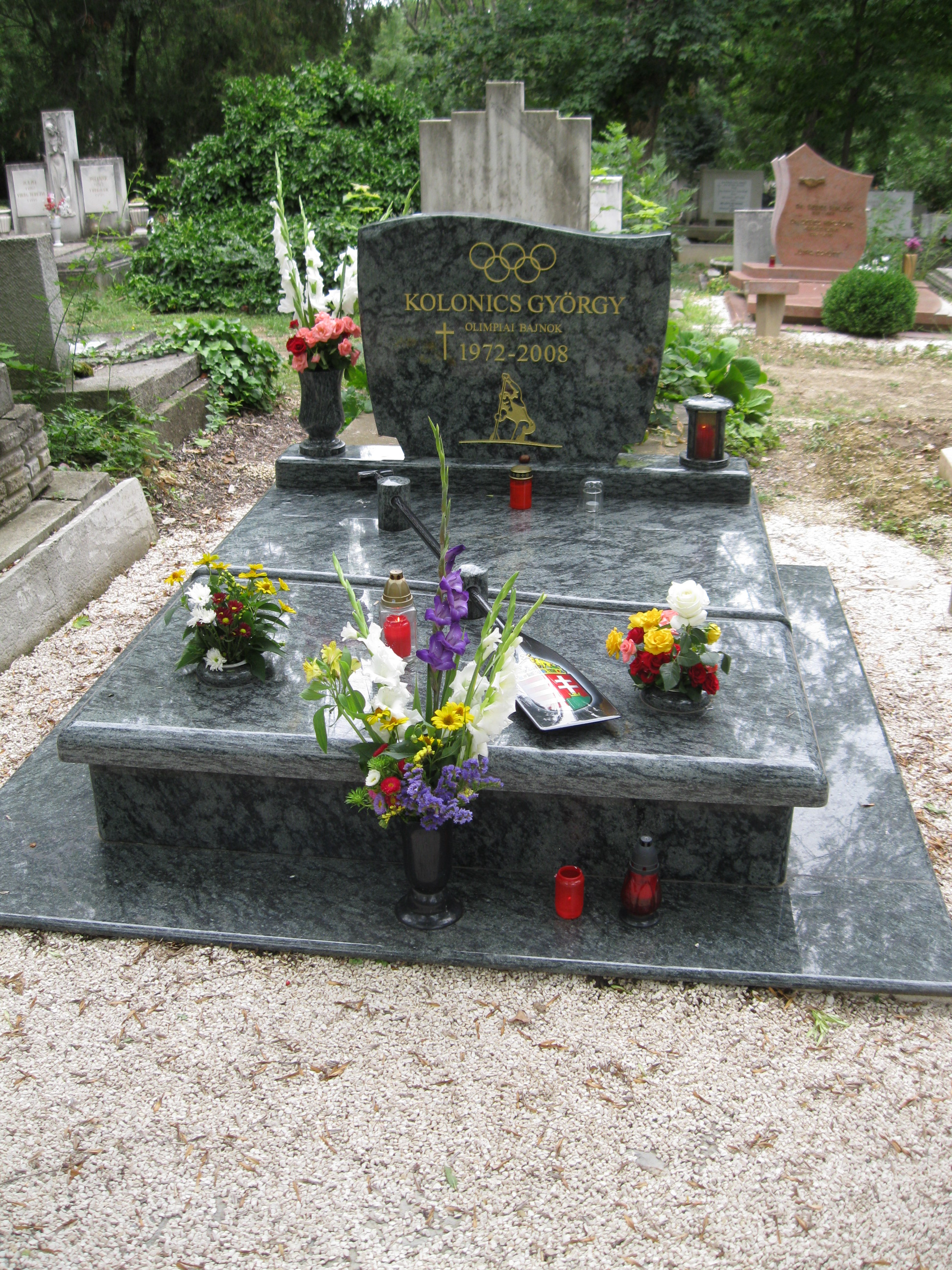 Tomb of György Kolonics in Farkasréti Cemetery [8/1/A-1-67/68]